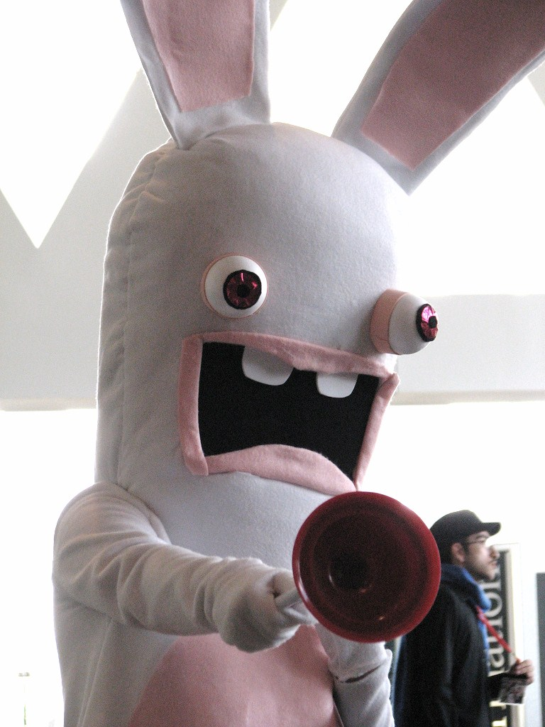 Rabbids cosplay at Otakon, photographed by Sunrise Ottah in July 2007. This is a slightly retouched version of the original picture.